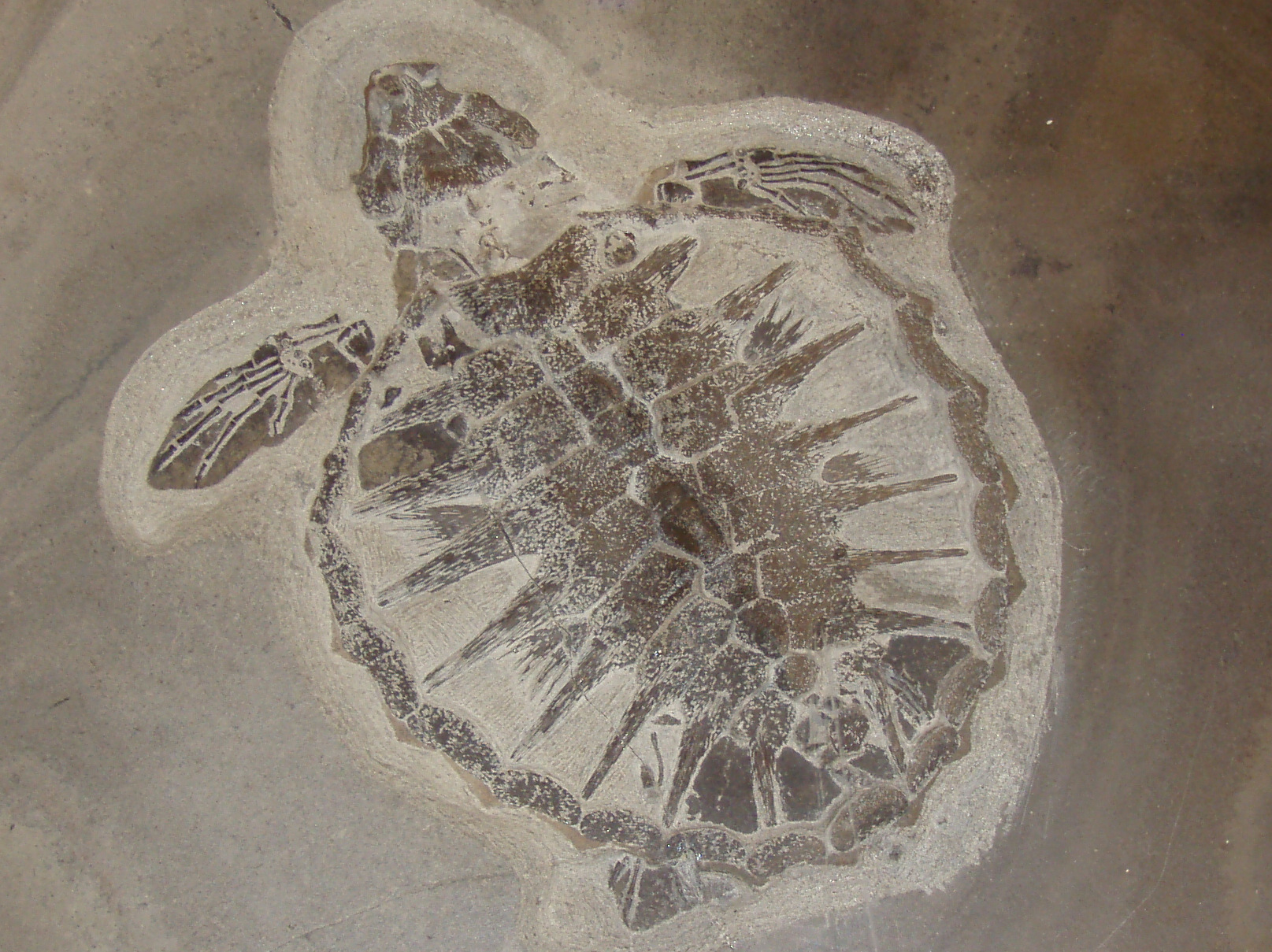 Tasbacka danica. Complete unique fossil baby sea turtle. Early Eocene Fur Formation. Preserved in calcareous concretion. 10,5 cm in length